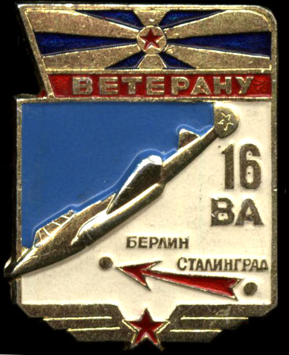 Formation badge (also: Memorial badge) to «Veterans 16th Air Army» of the Soviet Forces in Germany 1945-1994.